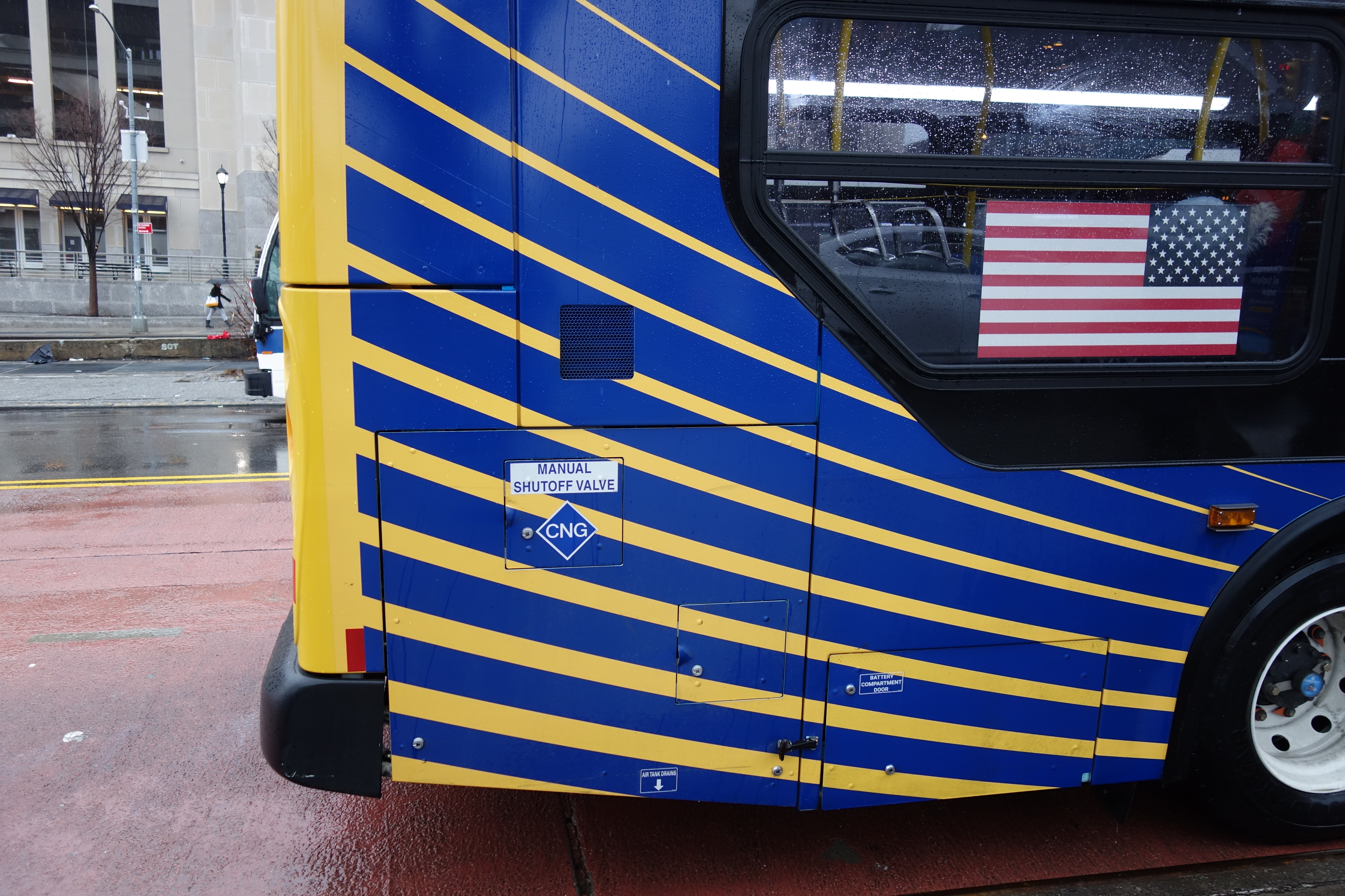 A Hunts Point-bound Bx6 local bus stopped across from Yankee Stadium on the west side of the 161st Street–Yankee Stadium IRT station, at 161st Street and River Avenue in Concourse, Bronx.